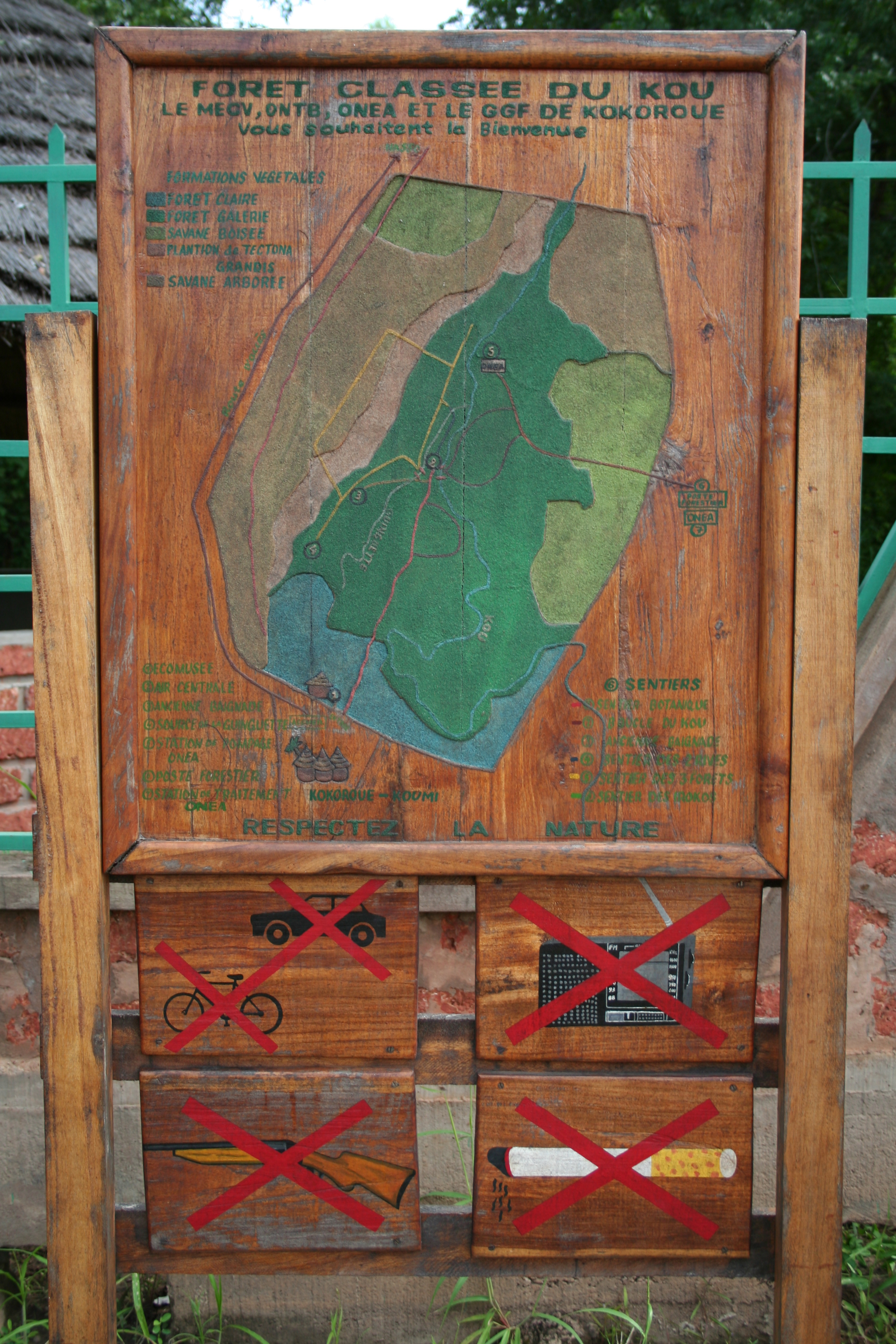 Map at the entry of F. Cl. du Kou, Burkina Faso